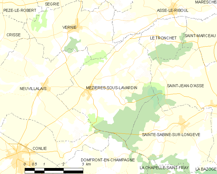 Map of French municipality